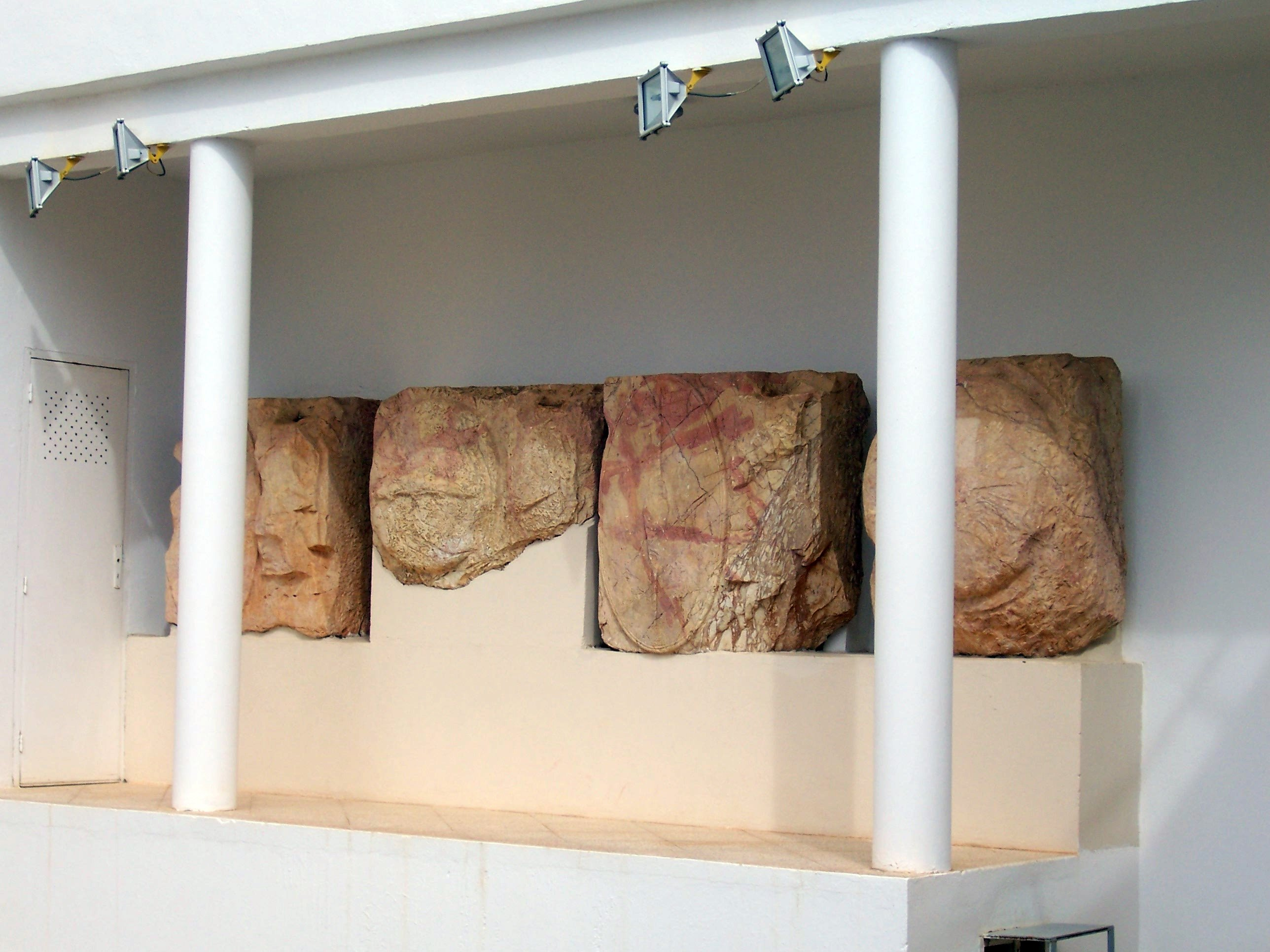 Marble blocs exposed in the Archaeological Museum of Chemtou